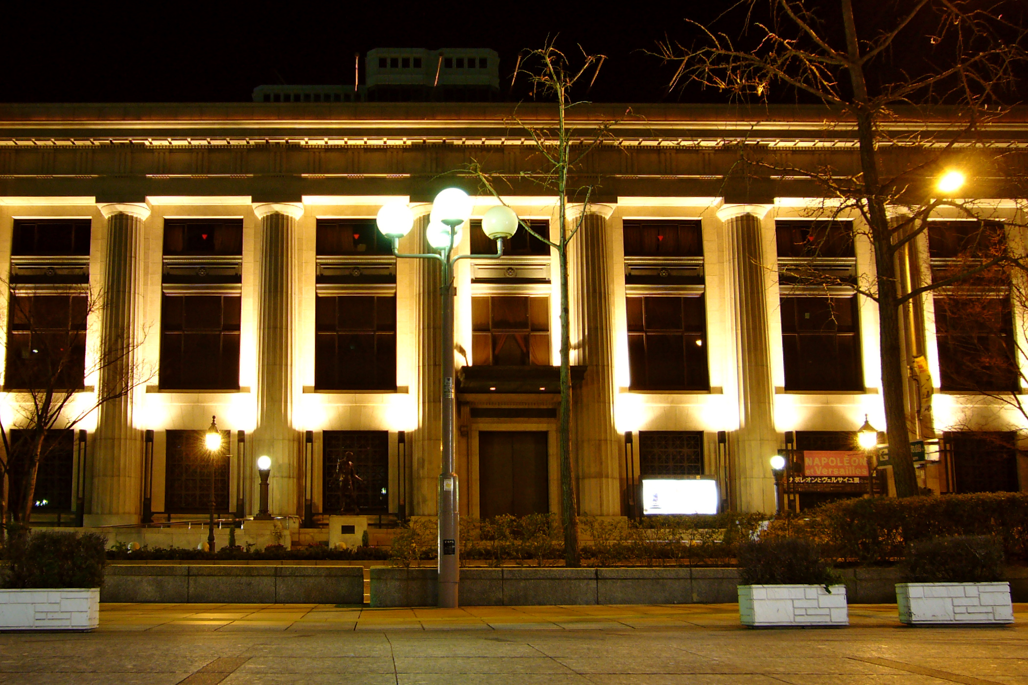 Kobe City Museum in Kobe, Hyogo prefecture, Japan